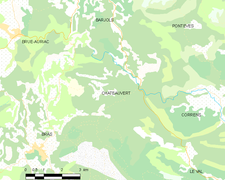 Map of French municipality Châteauvert